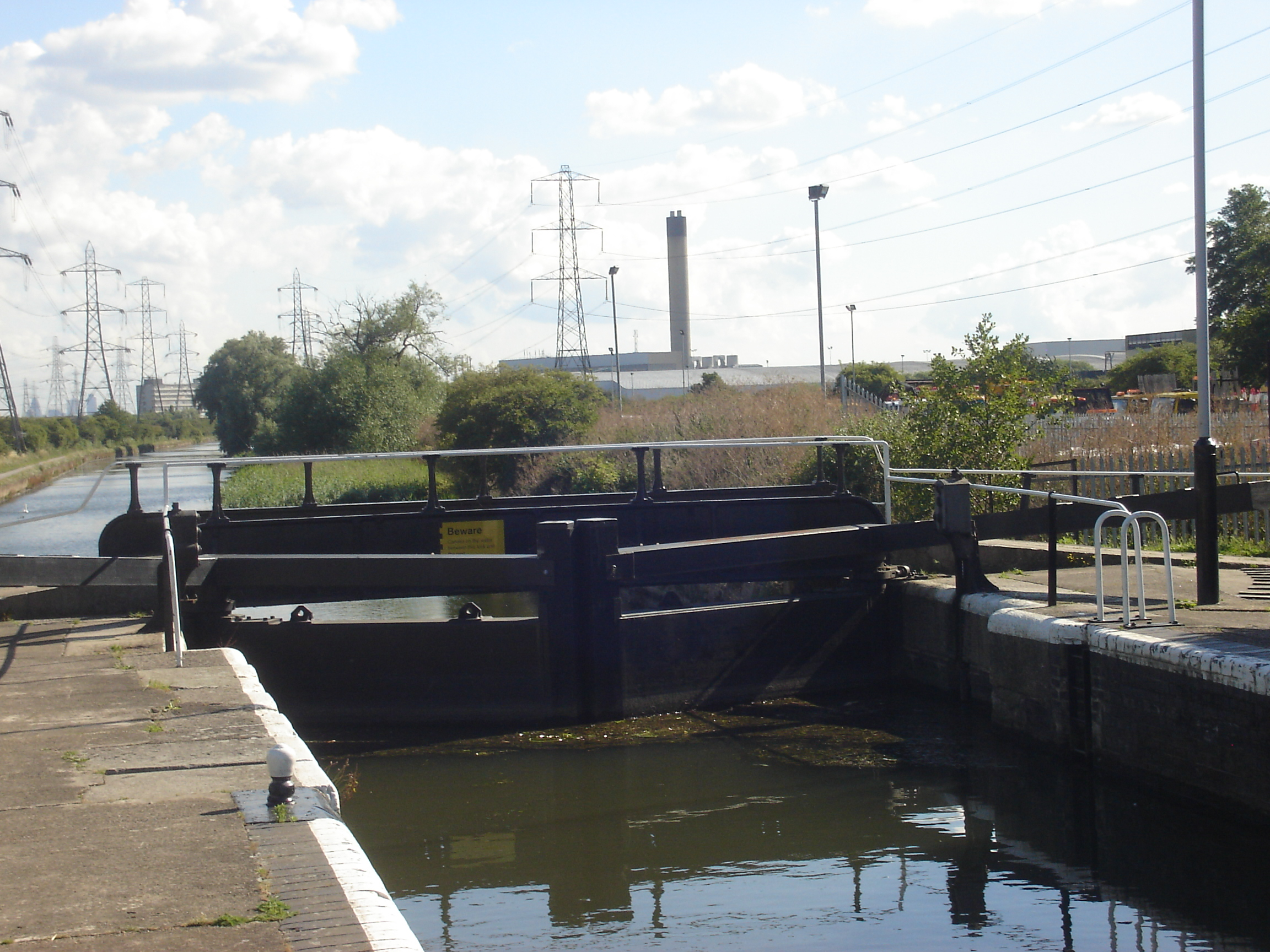 Picture taken at Picketts Lock